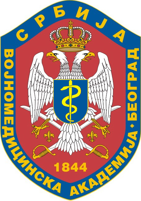 Military Medical Academy Emblem